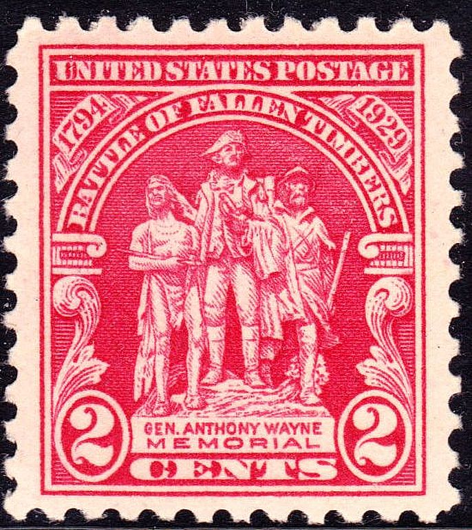 Gen_Anthony_Wayne_1929_Issue-2c.jpg